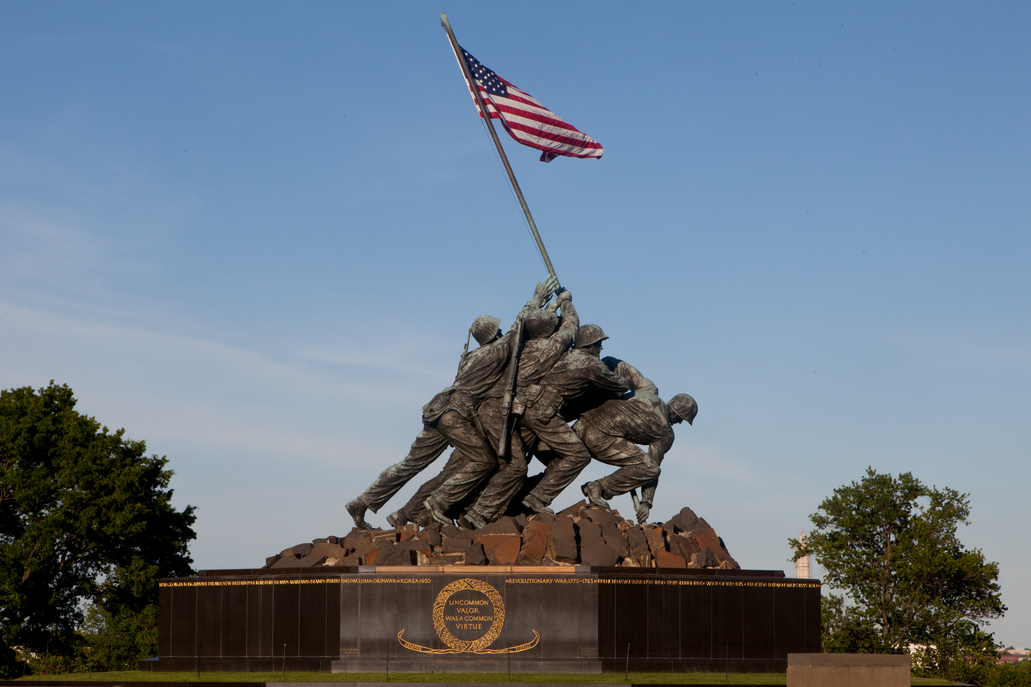 The Marine Corps War Memorial in Arlington, Va., can be seen prior to the Sunset Parade June 4, 2013. Sunset Parades are held every Tuesday during the summer months.